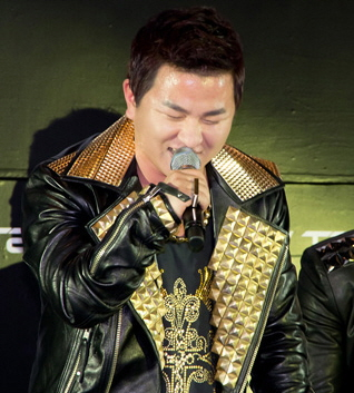 Huh Gak at Samsung's Galaxy Tab Life is Tab showcase